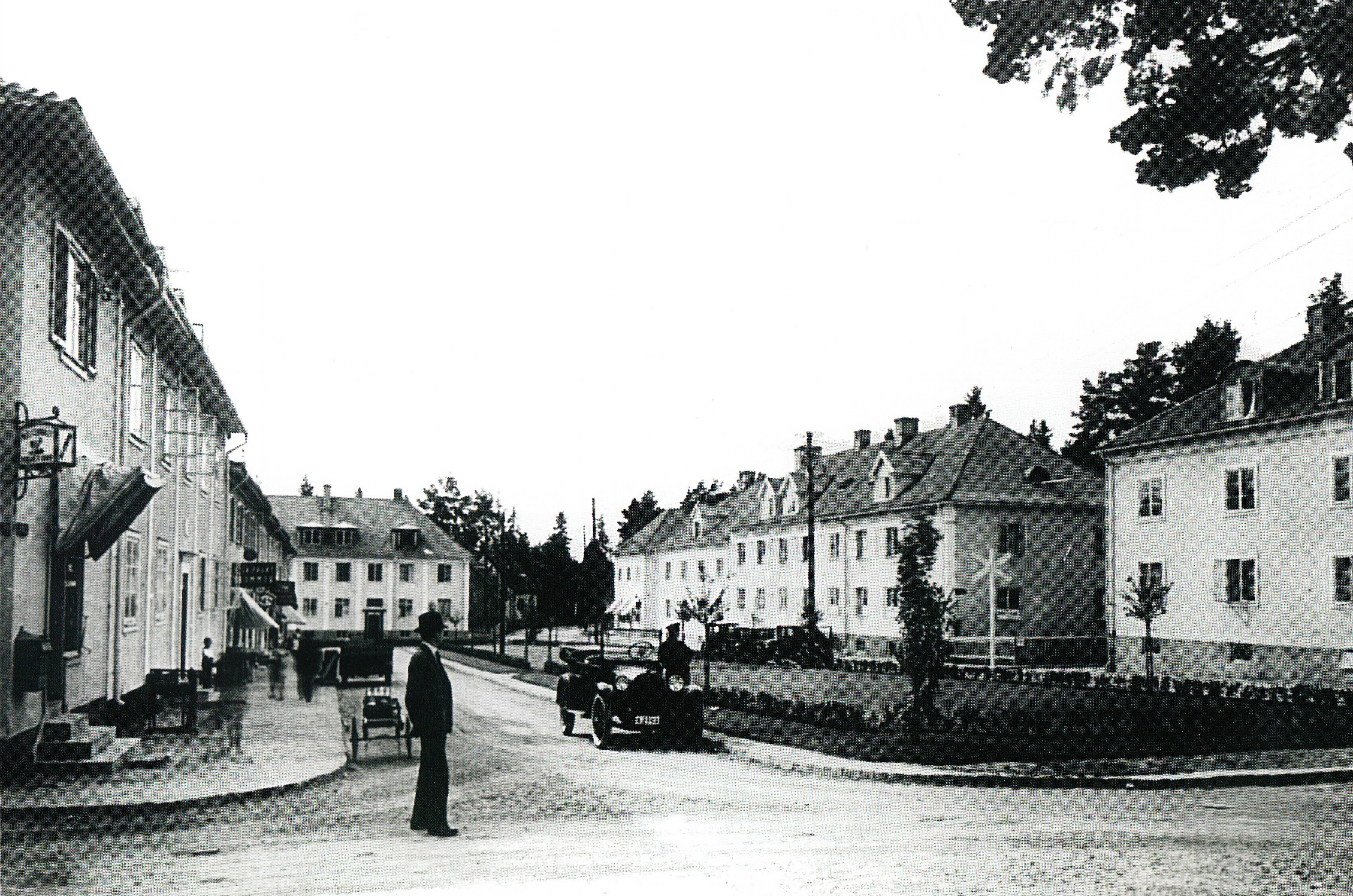 Smedslättstorget from the north in 1928, a square place built in the beginning of the 1920s in Smedslätten in Bromma western Stockholm.